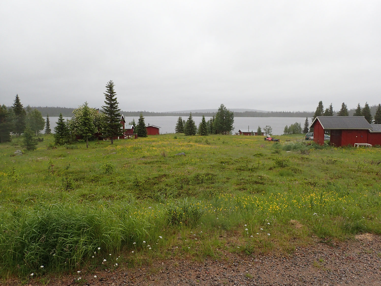 The settlement Tuolpukka by lake Tuolpukkajärvi in Kiruna Municipality, northern Sweden. The place has been one of the main settlements of Vittangi forest Sami community, but is now mostly visited temporarily.